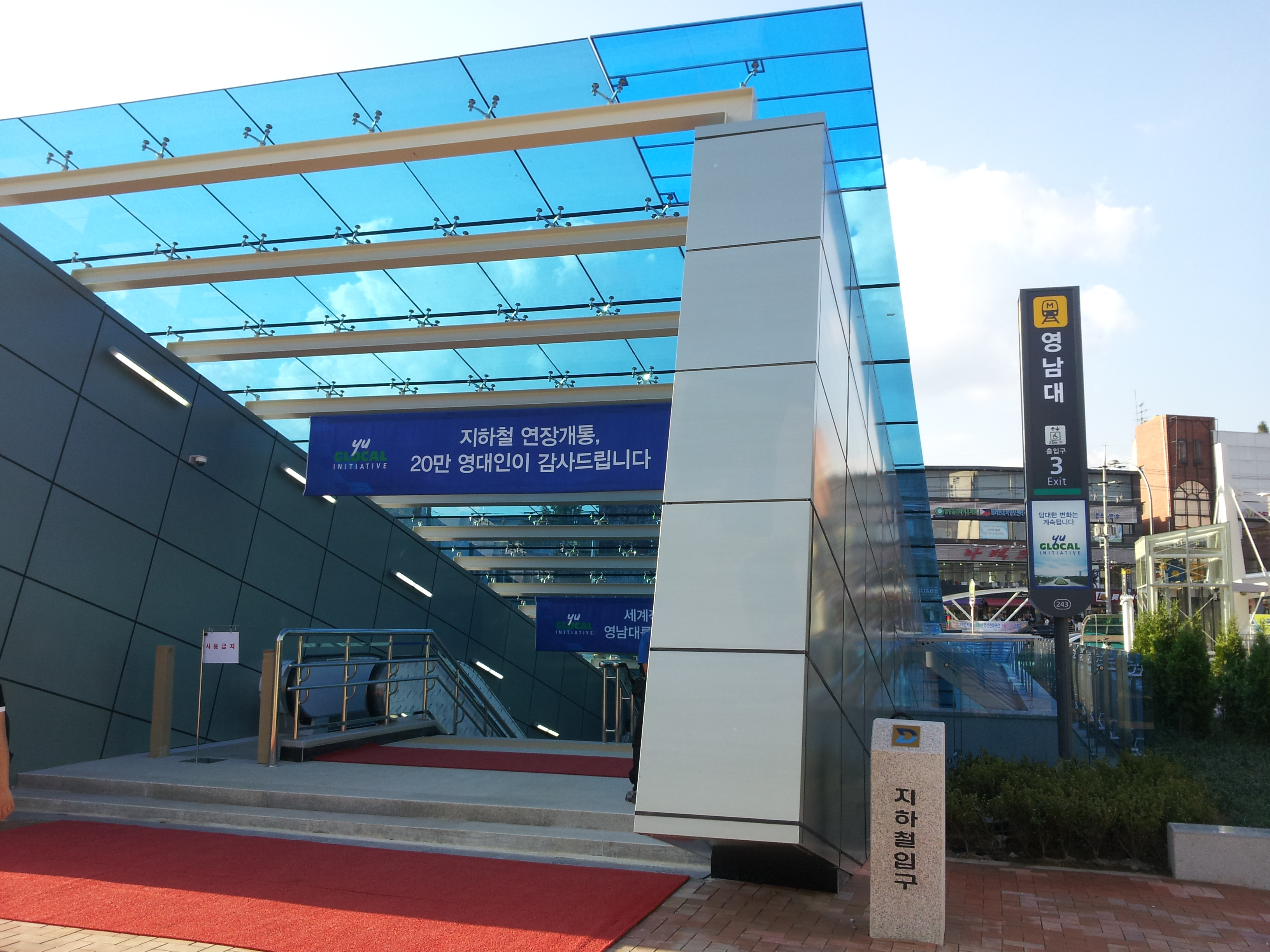 The 3rd Gate of Yeungnam Univ. Station of Daegu Subway Line 2